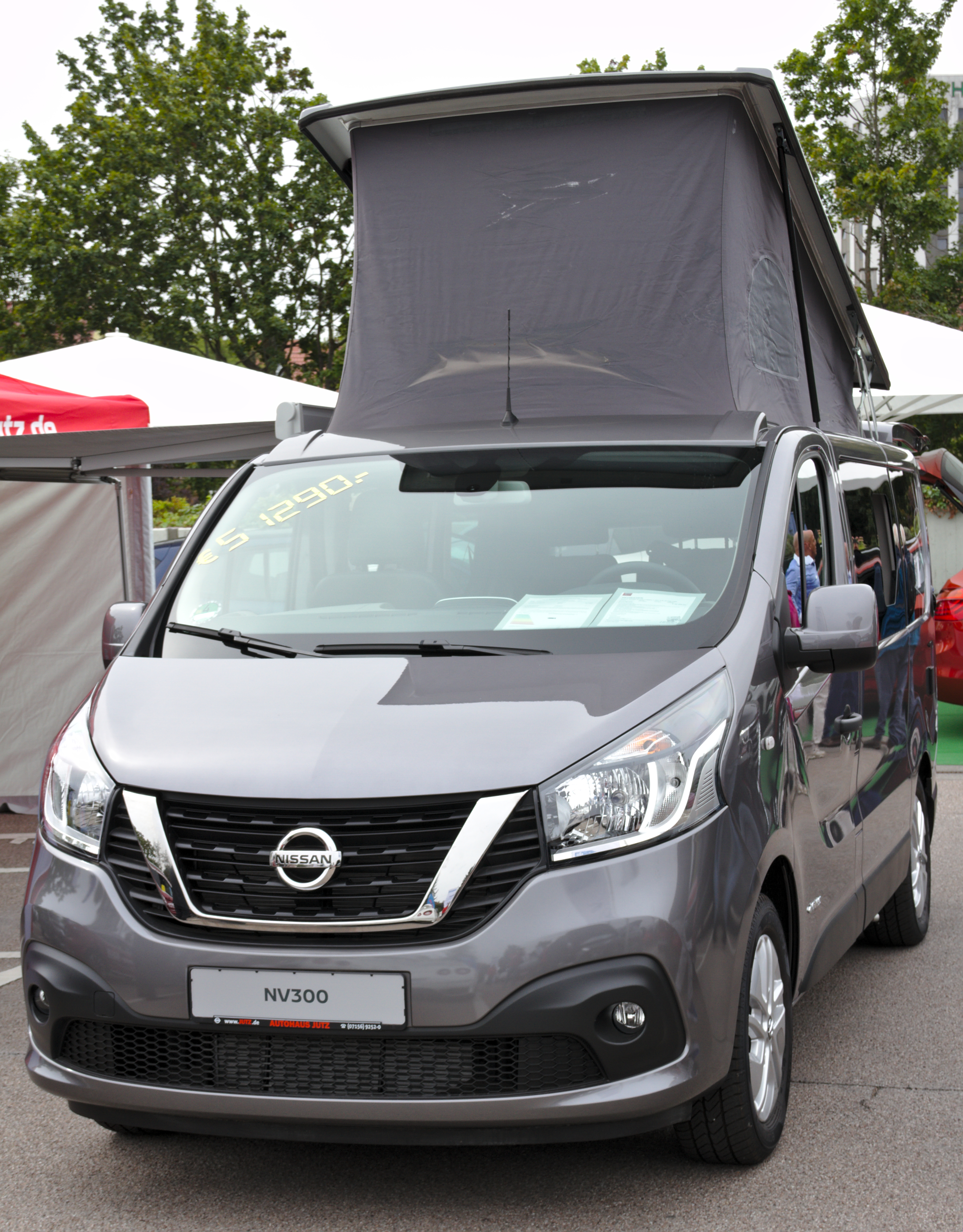 Nissan_NV300 at Leonberger Autoschau 2019